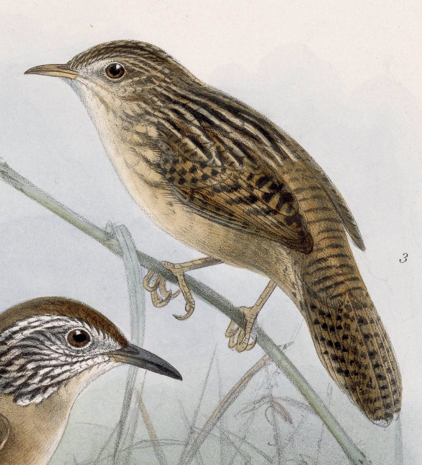 « Cistothorus elegans » = Cistothorus platensis elegans (subspecies of Grass Wren)